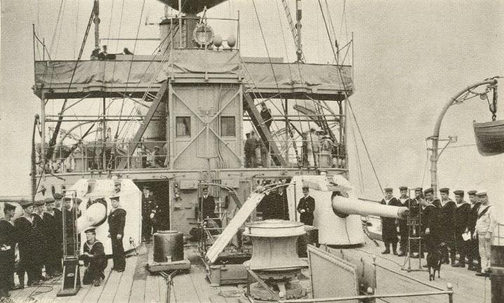 6-inch (152-mm) guns aboard the British cruiser